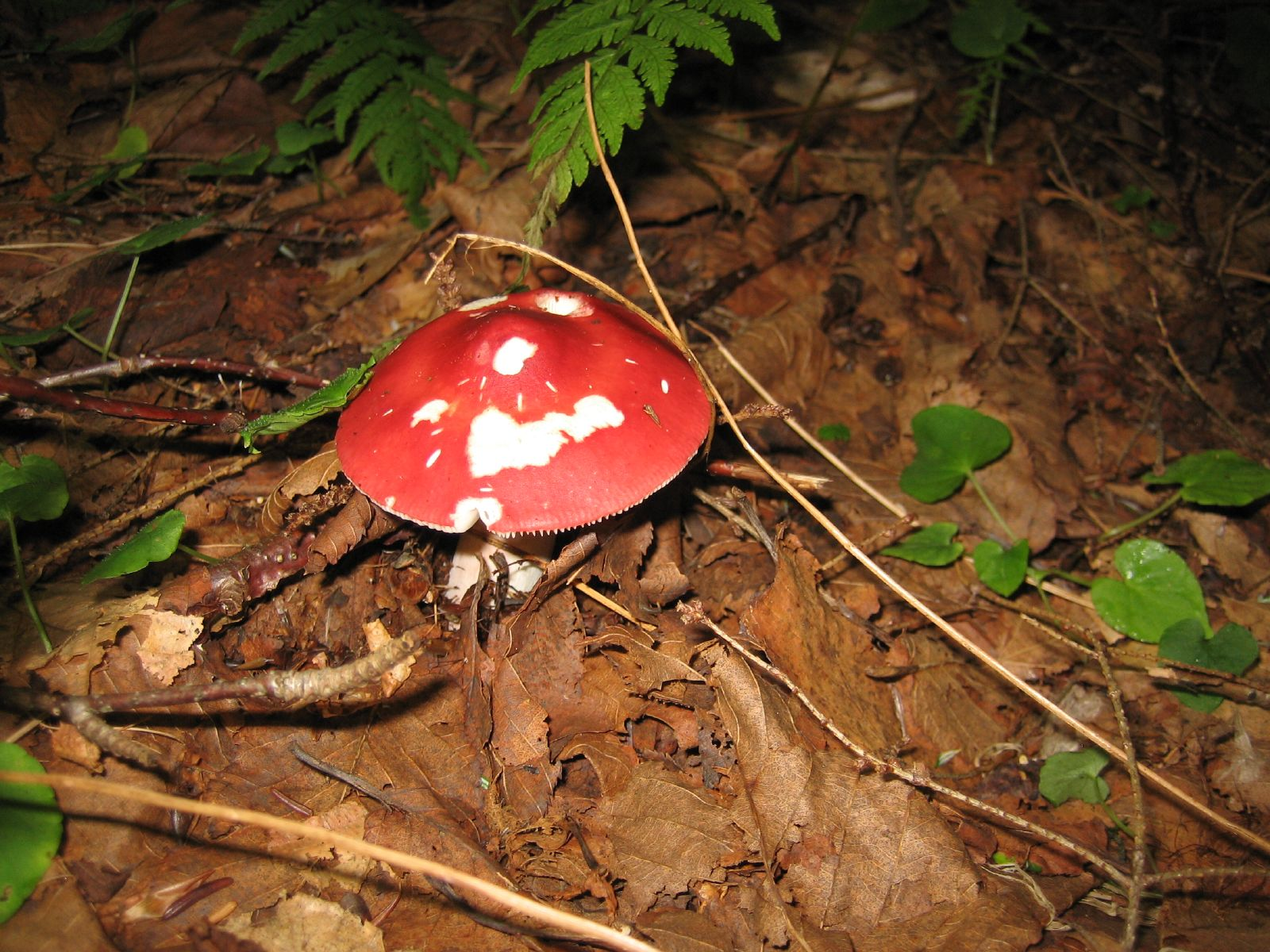 Mushroom in Kellettsville, Kingsley Township, Forest County, Pennsylvania. Kellettsville appears to be just a campground in the Allegheny National Forest. Indeed the entire township and much of the county is part of the National Forest